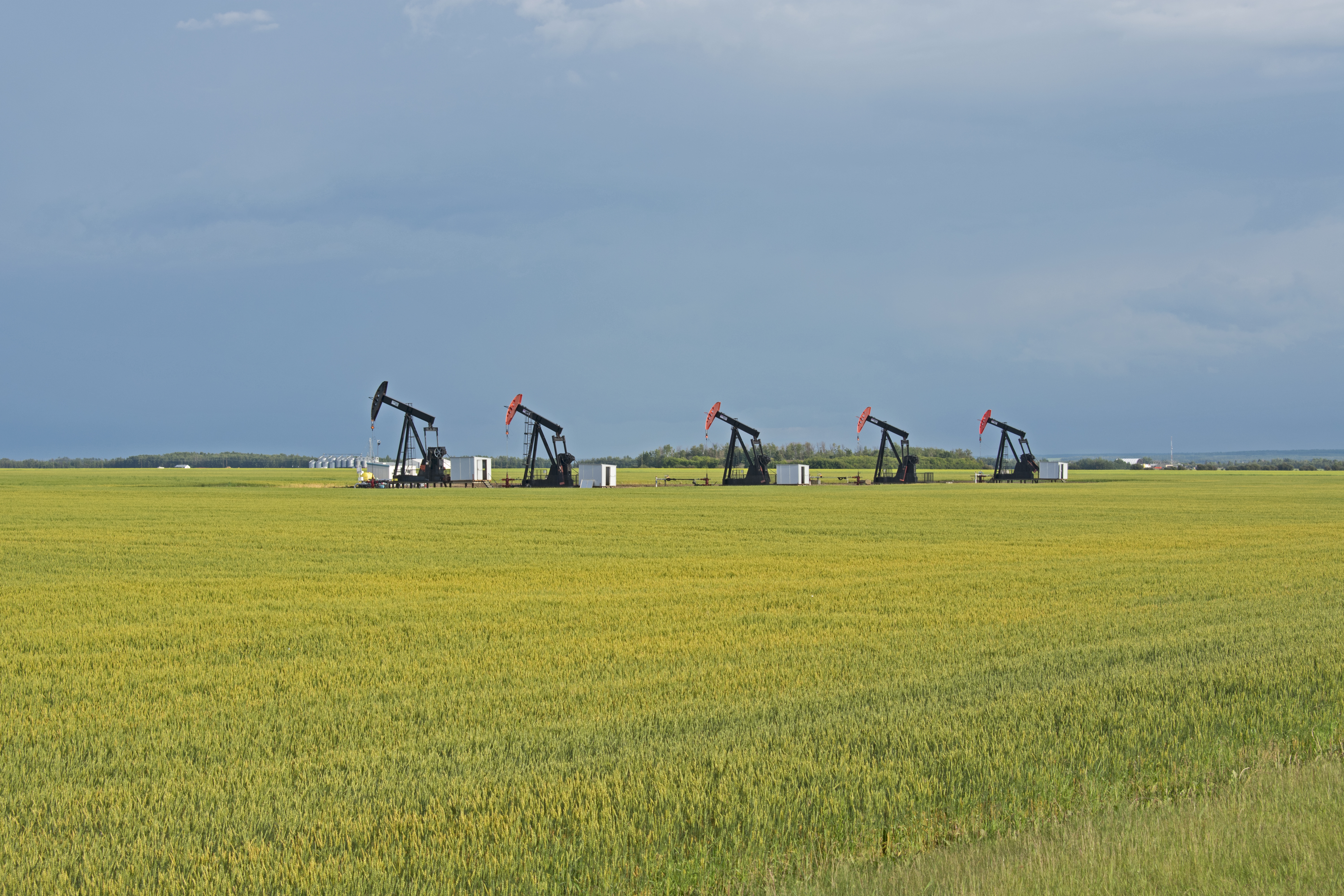 Oil pumps on AB2 near Falher, next to property 78230